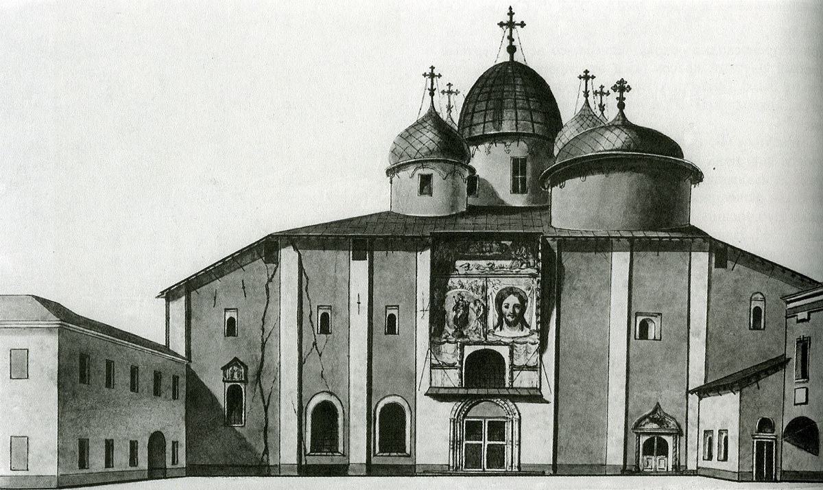 Architectural surveys of St. Sophia cathedral in Novgorod, 22 July 1830, prior to restoration of 1830s